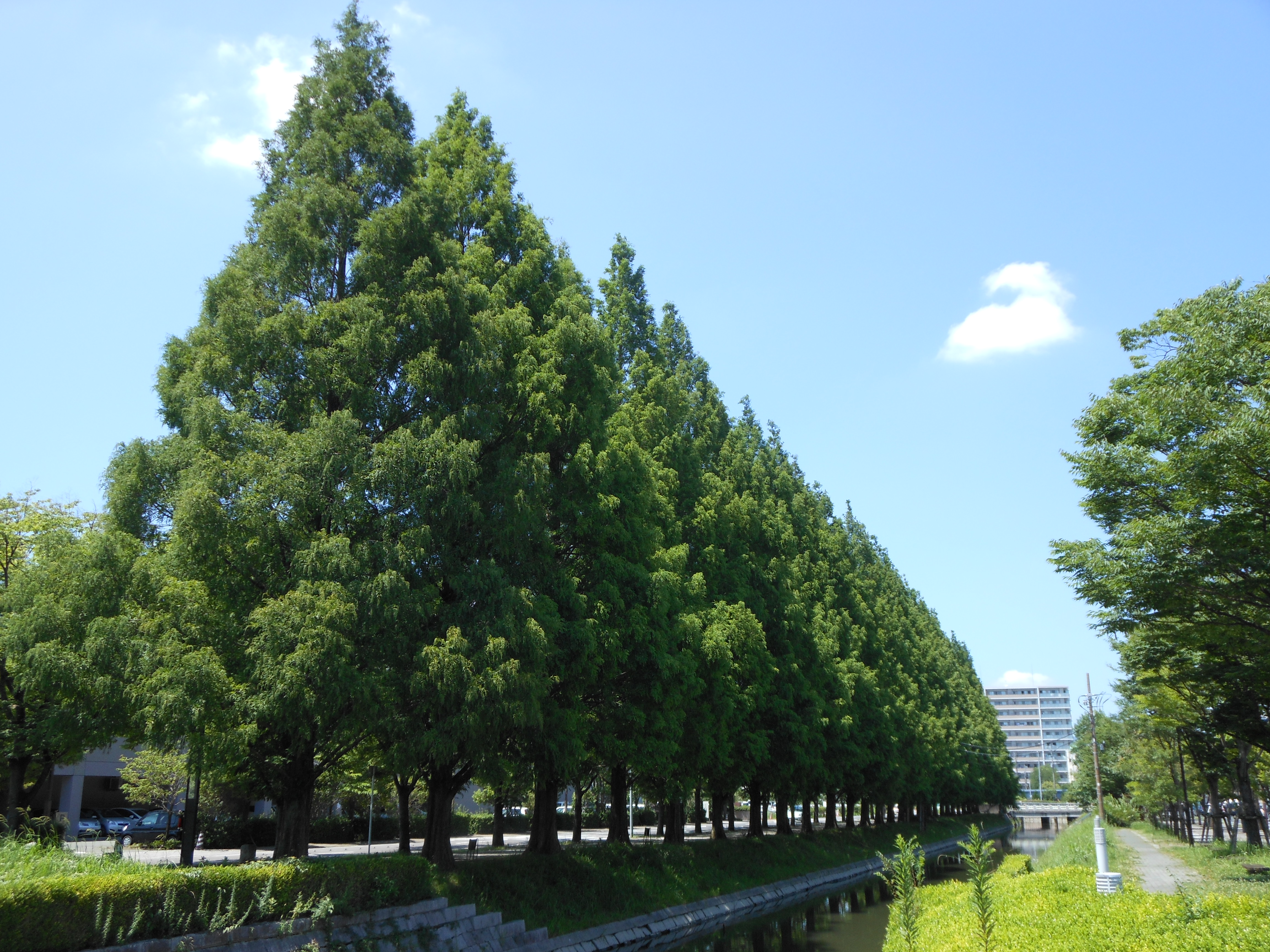 Metasequoia trees in Don-don-don No Mori, Saga city.